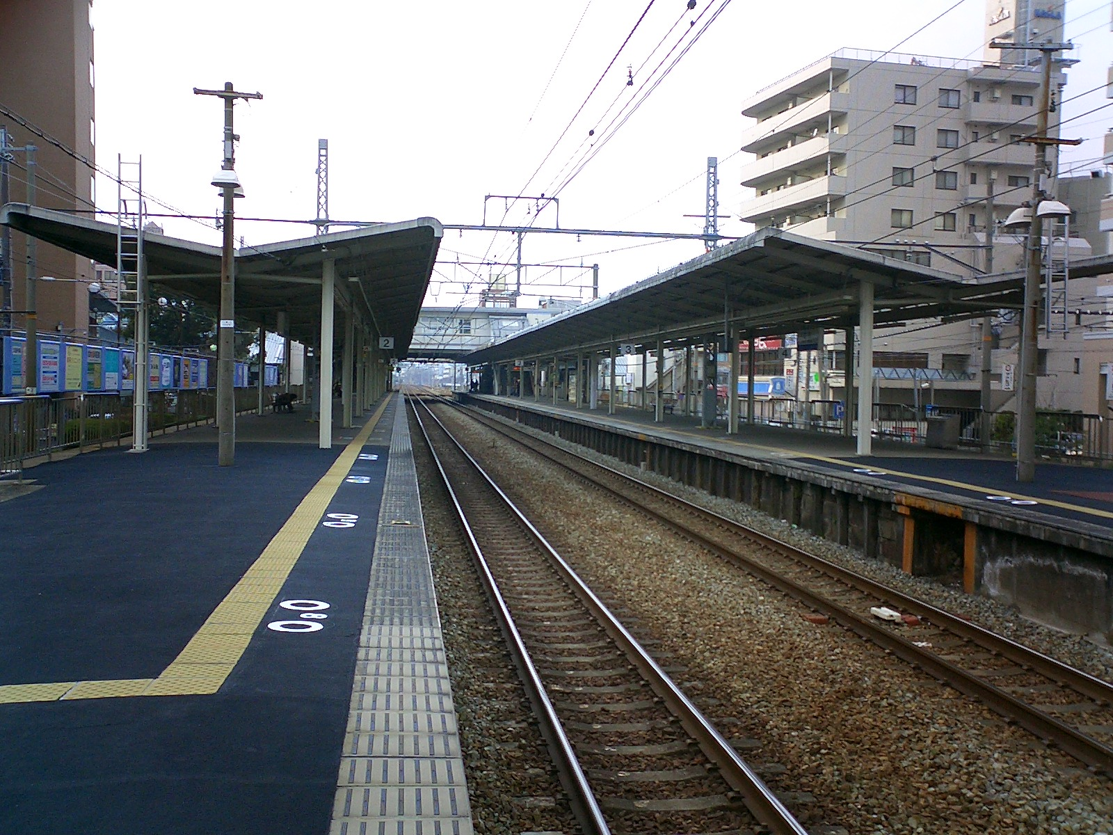 West Japan Railway Tōkaidō Main Line（JR Kōbe Line） Tachibana Station Platform